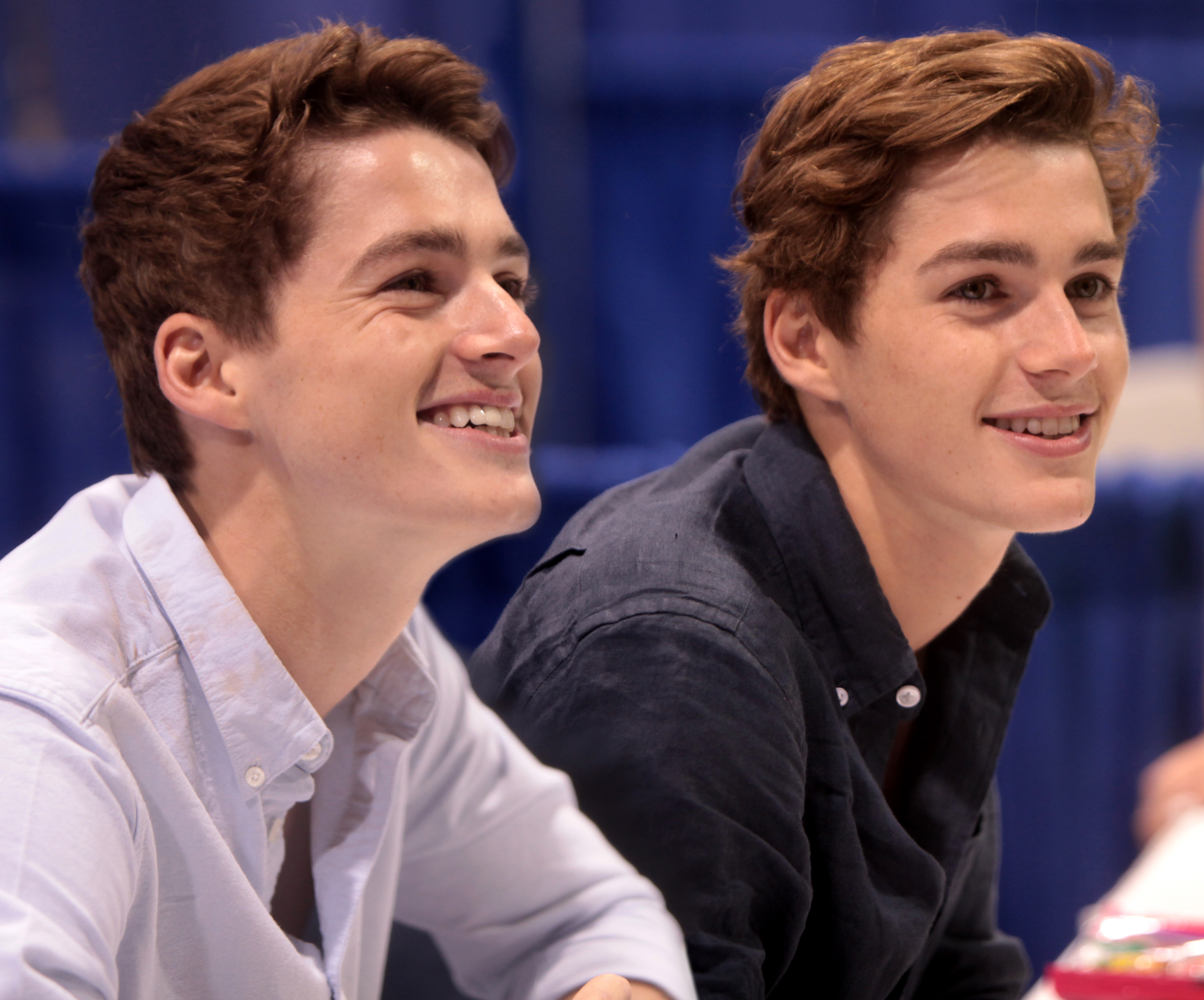 Jack Harries (right) and Finn Harries (left) speaking at the 2014 VidCon on June 28, 2014.